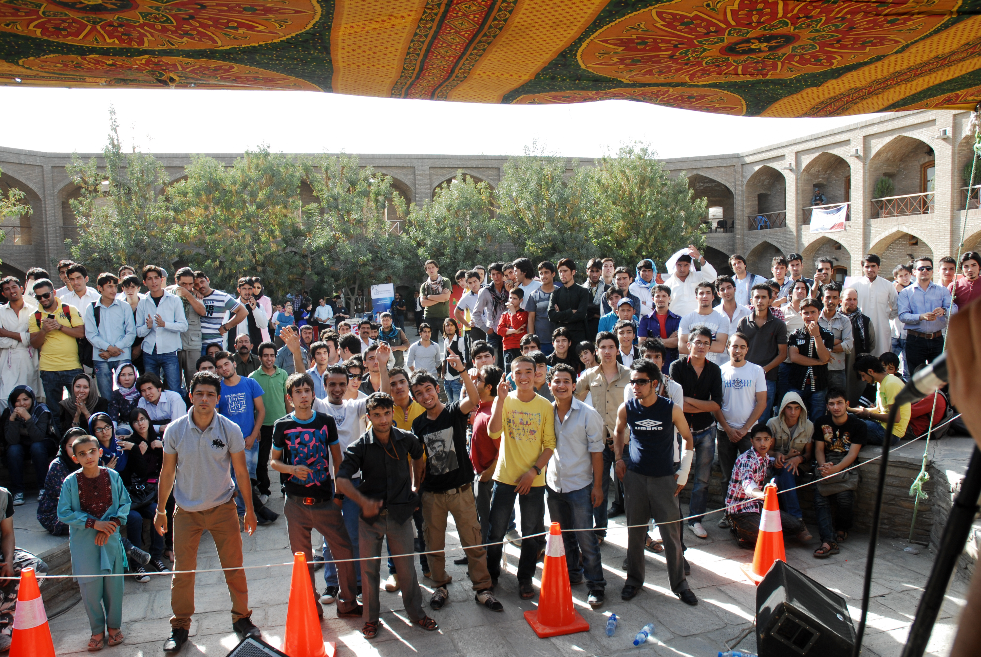 Sound Central Festival inside the gardens of Babur in Kabul, Afghanistan.